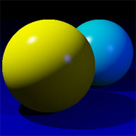 A sphere, rendered using Phong shading, showing the specular highlights from two light sources. This image was created by Reedbeta using a self-written raytracer.